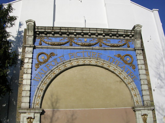 Walpole Picture Theatre facade The original cinema stood in Bond Street, Ealing from 1912 to 1972. Its facade has been preserved and now stands in a car park off Mattock Lane.